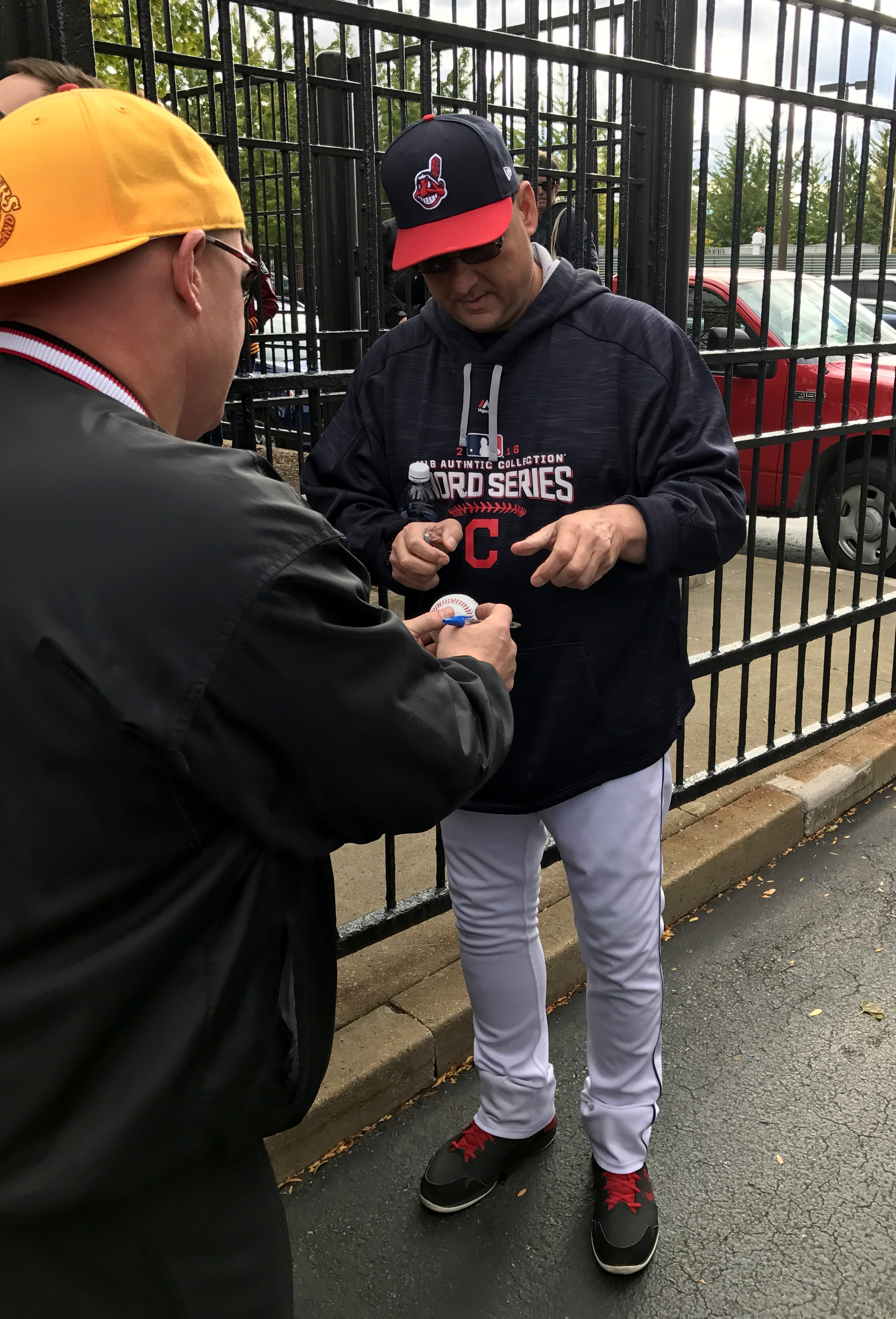 Indians skipper Terry Francona signs for fans before #WorldSeries Game 1.